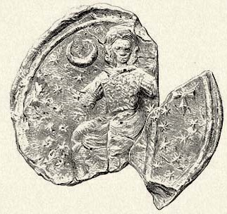 Lev II of Galicia